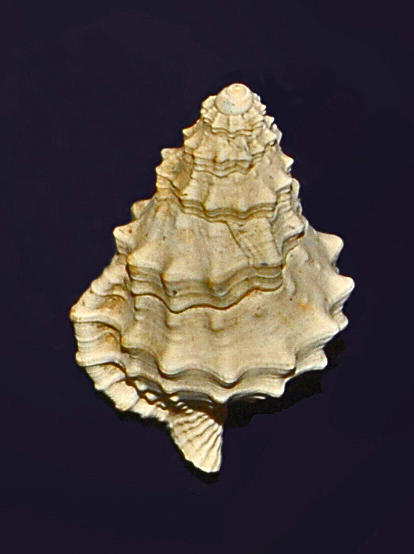 Fossil shell of Charonia appenninica from Pliocene of Italy, on display at the Museo Paleontologico, Asti